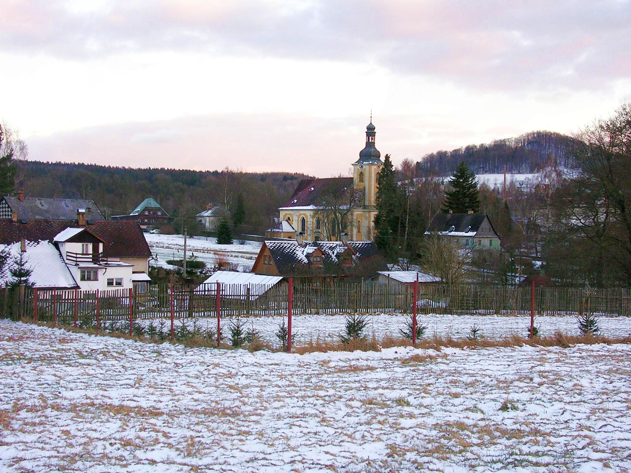 Church of the Assumption in Doubice, Ústí nad Labem Region, the Czech Republic. A view from the northwest.